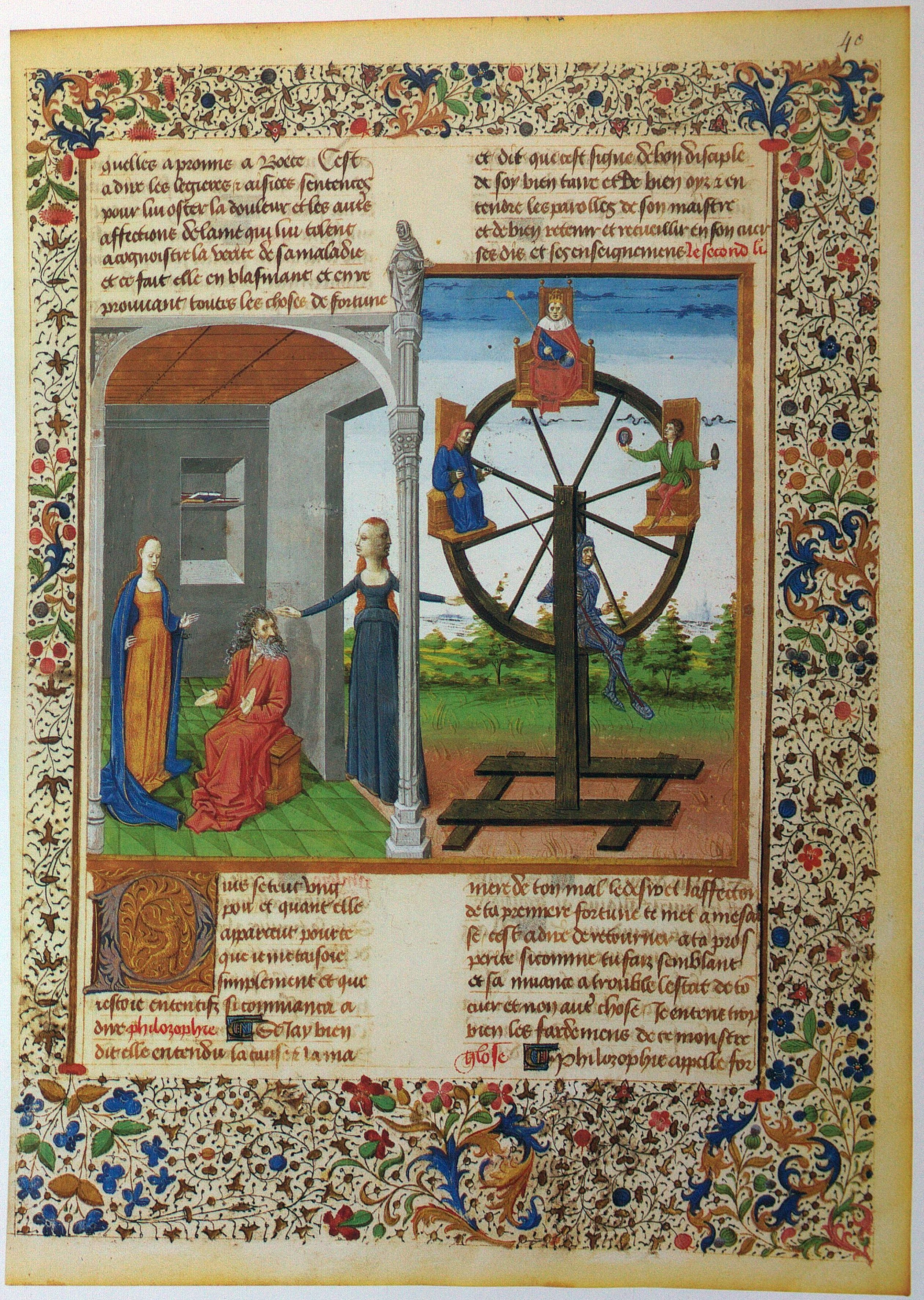 A page of a medieval French translation of Boethius’ „Consolation of Philosophy“ in the manuscript Paris, Bibliothèque nationale de France, Fr. 809, fol. 40r. The miniature shows Boethius (left) with Philosophia (the personification of philosophy); on the right side of the picture the Wheel of Fortune.